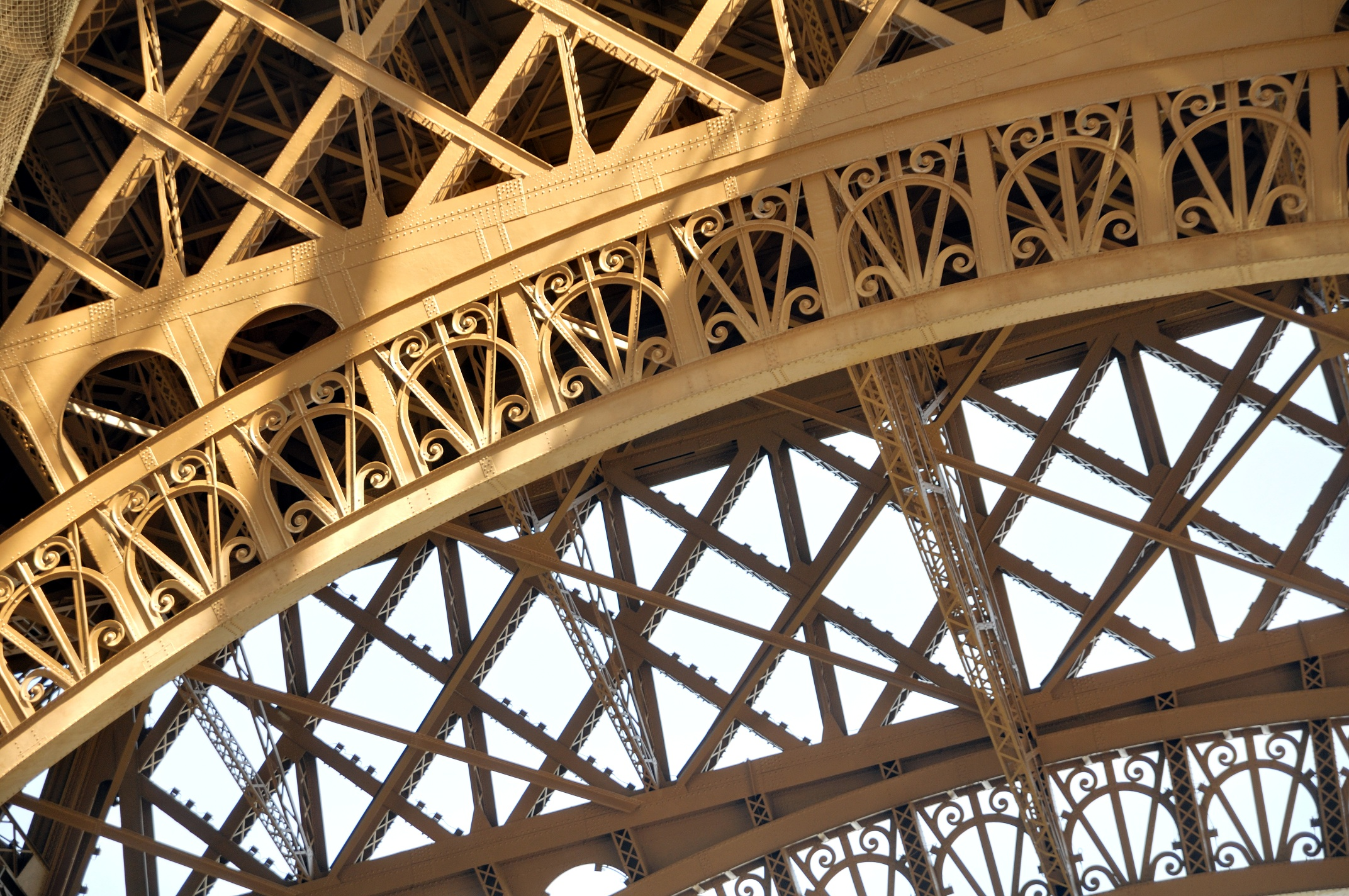 Structural detail of the Eiffel Tower